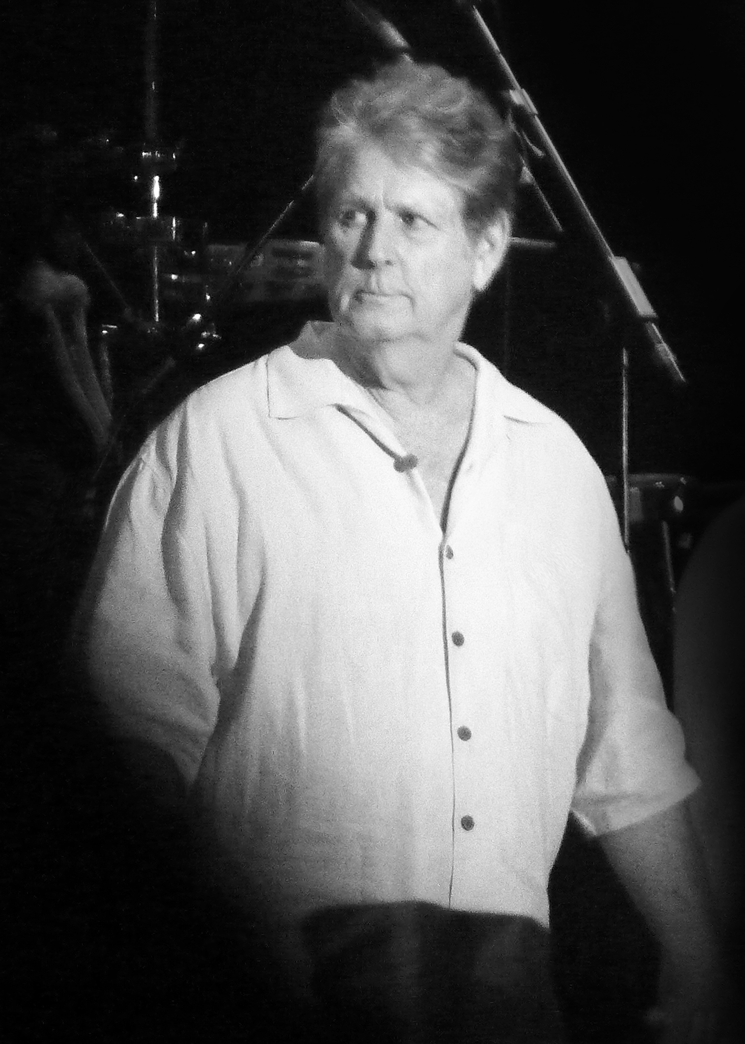 Brian Wilson performing in England.